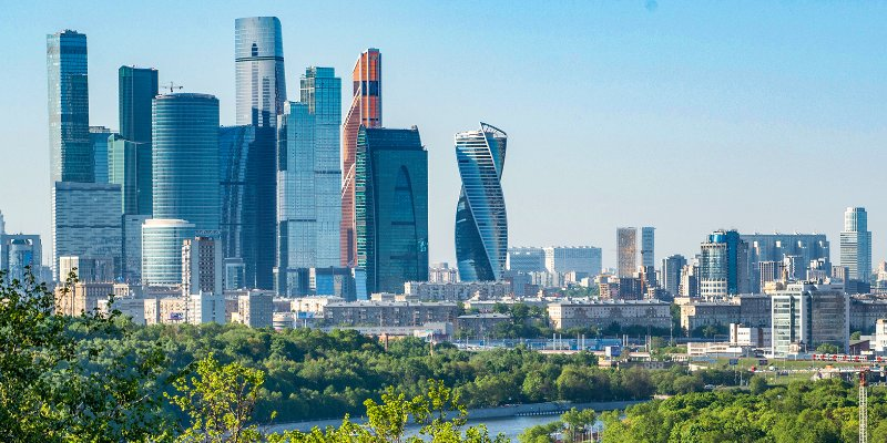 Moscow International Business Center